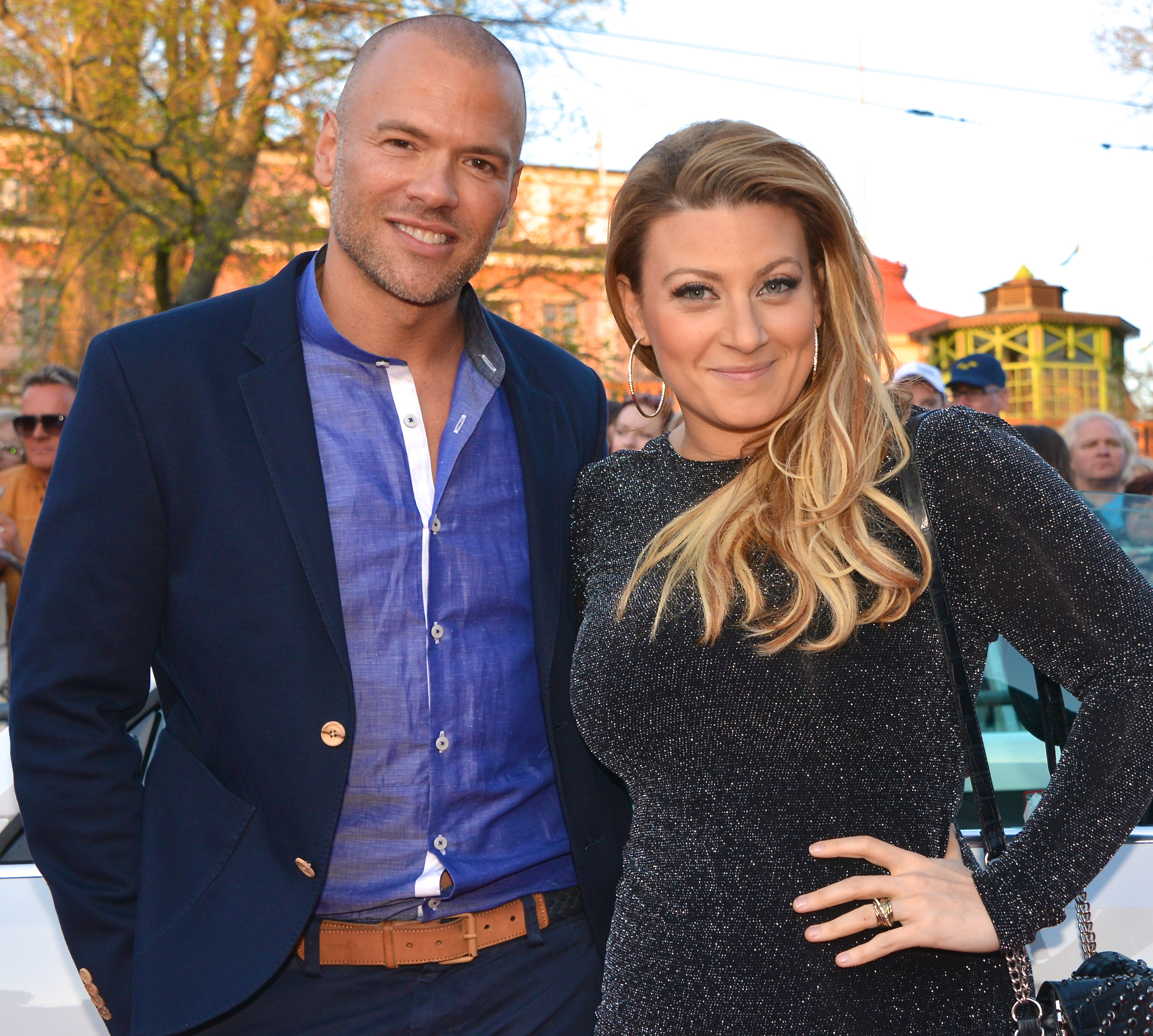 Andreas Lundstedt and Sarah Dawn Finer during the opening of ABBA: The Museum May 6, 2013.